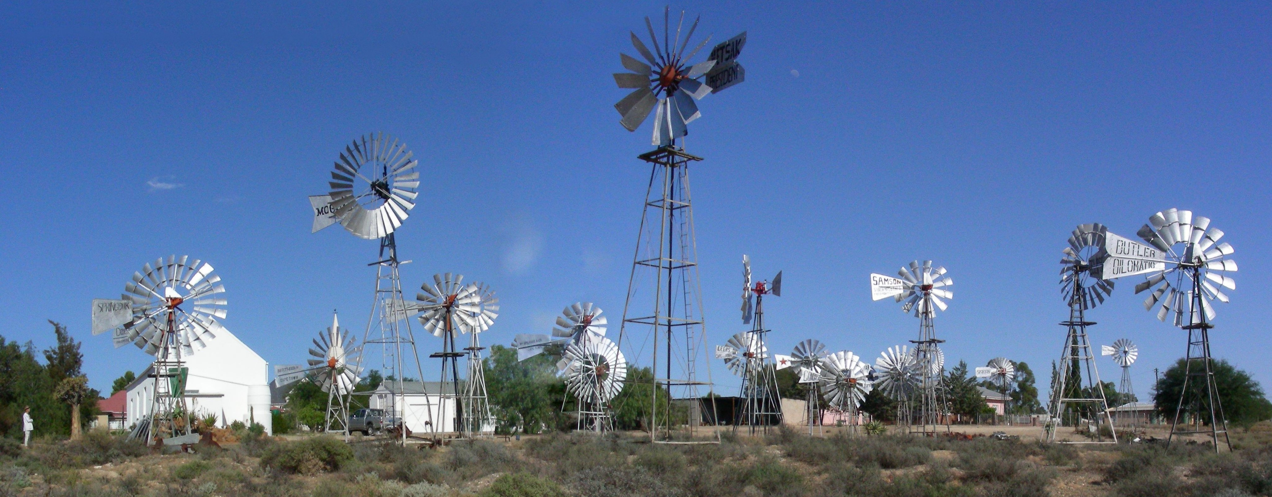 The windmill display at Loeriesfontein, in the Northern Cape, South Africa. There are 23 old water-pumping windmills on display here, within the "Fred Turner" folk and culture museum. Often referred to as the "Windmill Museum".